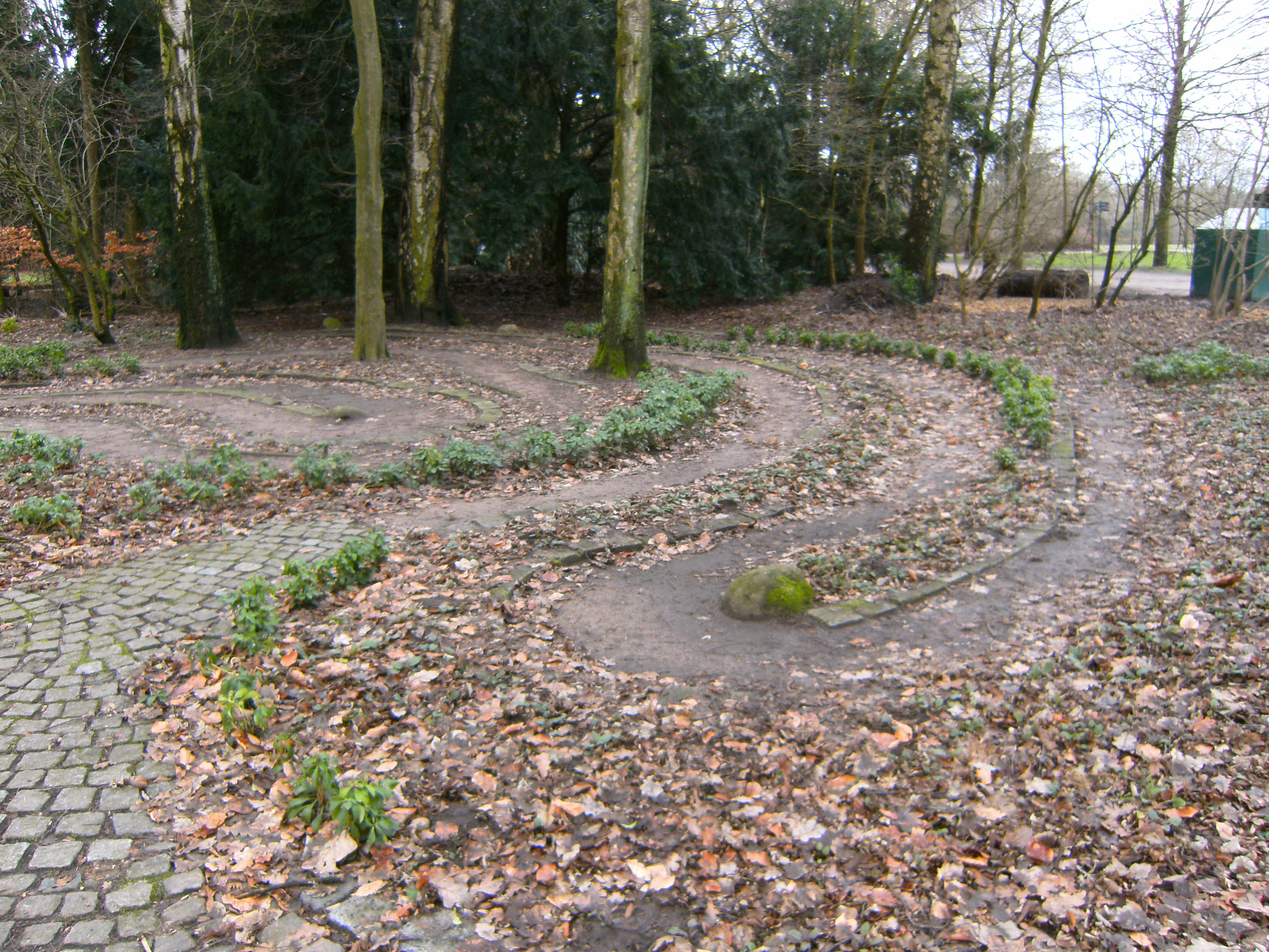 Hamburg Stadtpark (urban park): Maze on the ground (stone labyrinth). Located between Große Festwiese ( great meadow) and the Landhausweg (southern path).